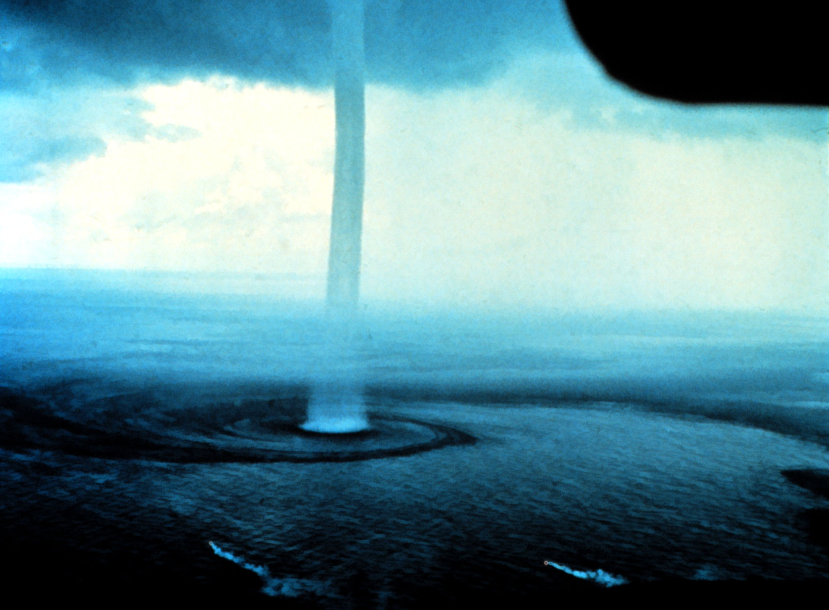 Picture of waterspout off the Florida Keys photographed from an aircraft coming from NOAA.